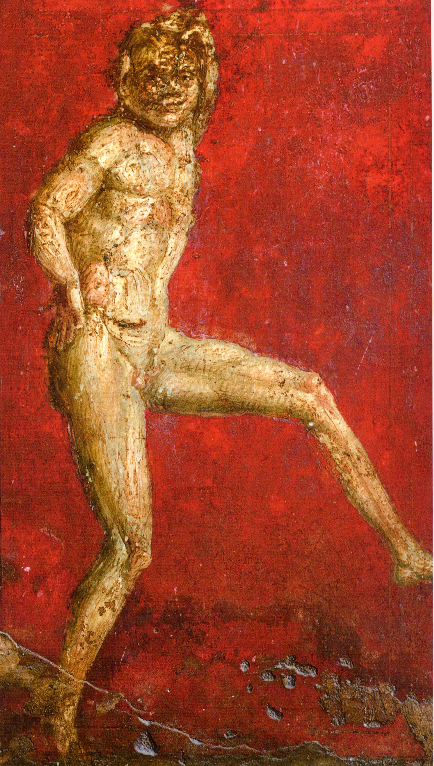 Dancing satyr (second style) from the cubiculum next to the Sala del Grande Dipinto in the Villa de Misteri (Pompeii).